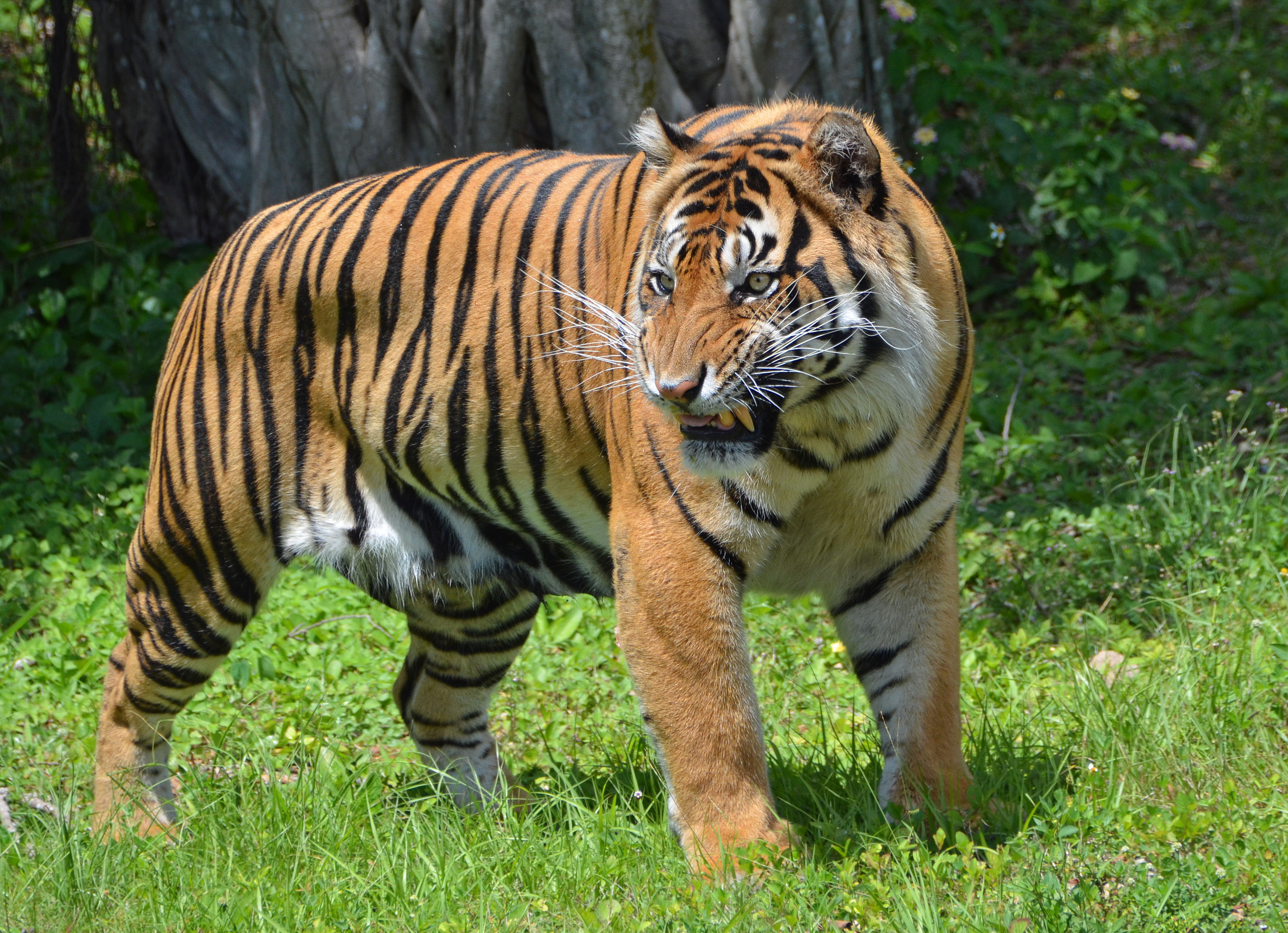 Sumatran Tiger in Miami MetroZoo, Florida